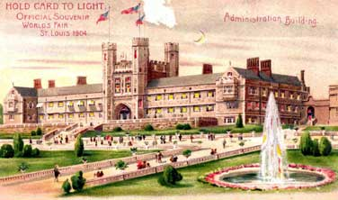 postcard of brookings hall from the st. louis world fair